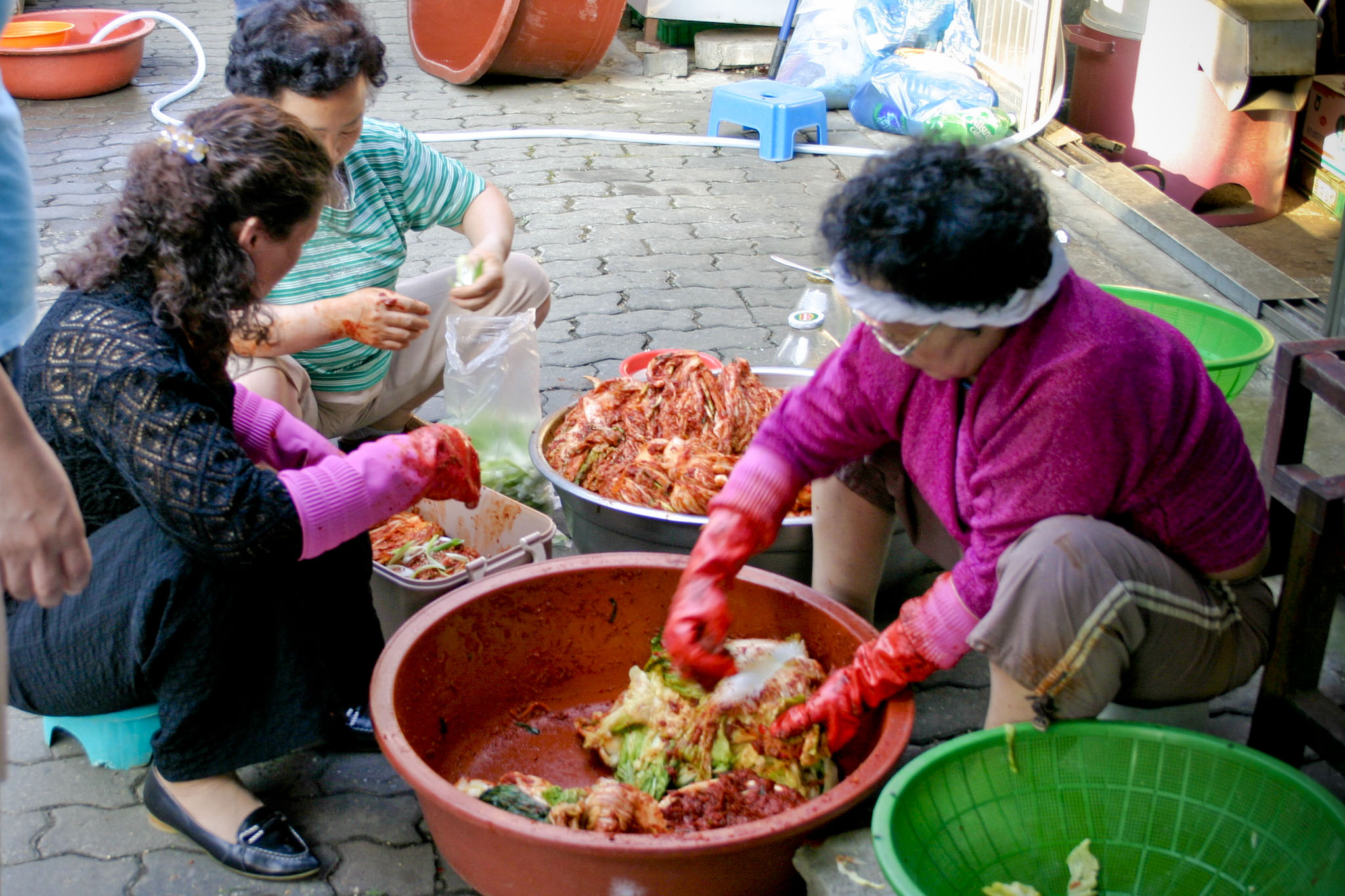 process of making kimchi, many ingredients